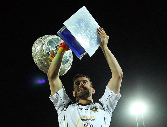 Celebrations after Sepahan won 2014-15 Iran Pro League title